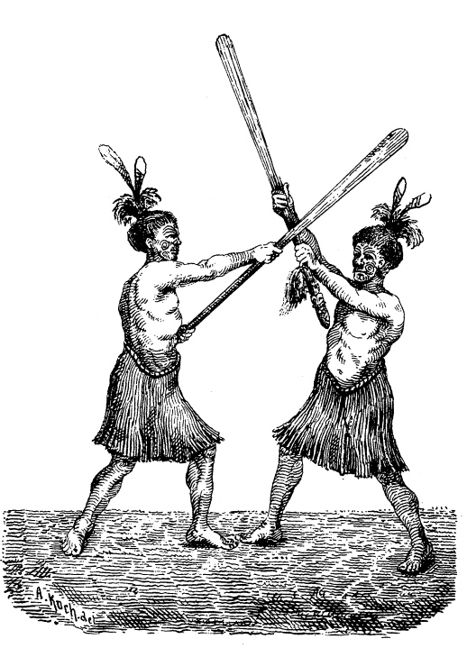 Two Māori men demonstrating a position in the traditional Māori martial art, using taiaha (fighting weapon), New Zealand, 19th century